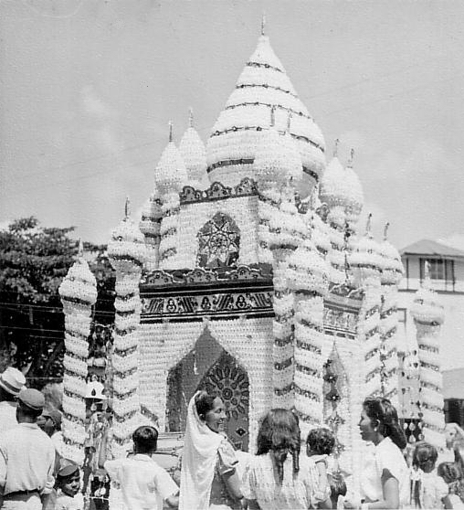 This photo was taken by my father, Dr. Ted Hill, in St. James, Trinidad during the 1950s. I have inherited the photo and am happy for it to be available to all. I am not sure if I have chosen the right licensing tags below. Could someone please help me? Many thanks, John Hill.